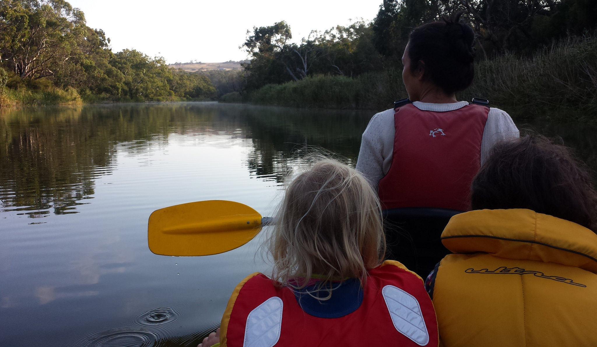 Early morning canoeing on the Glenelg River, Australia